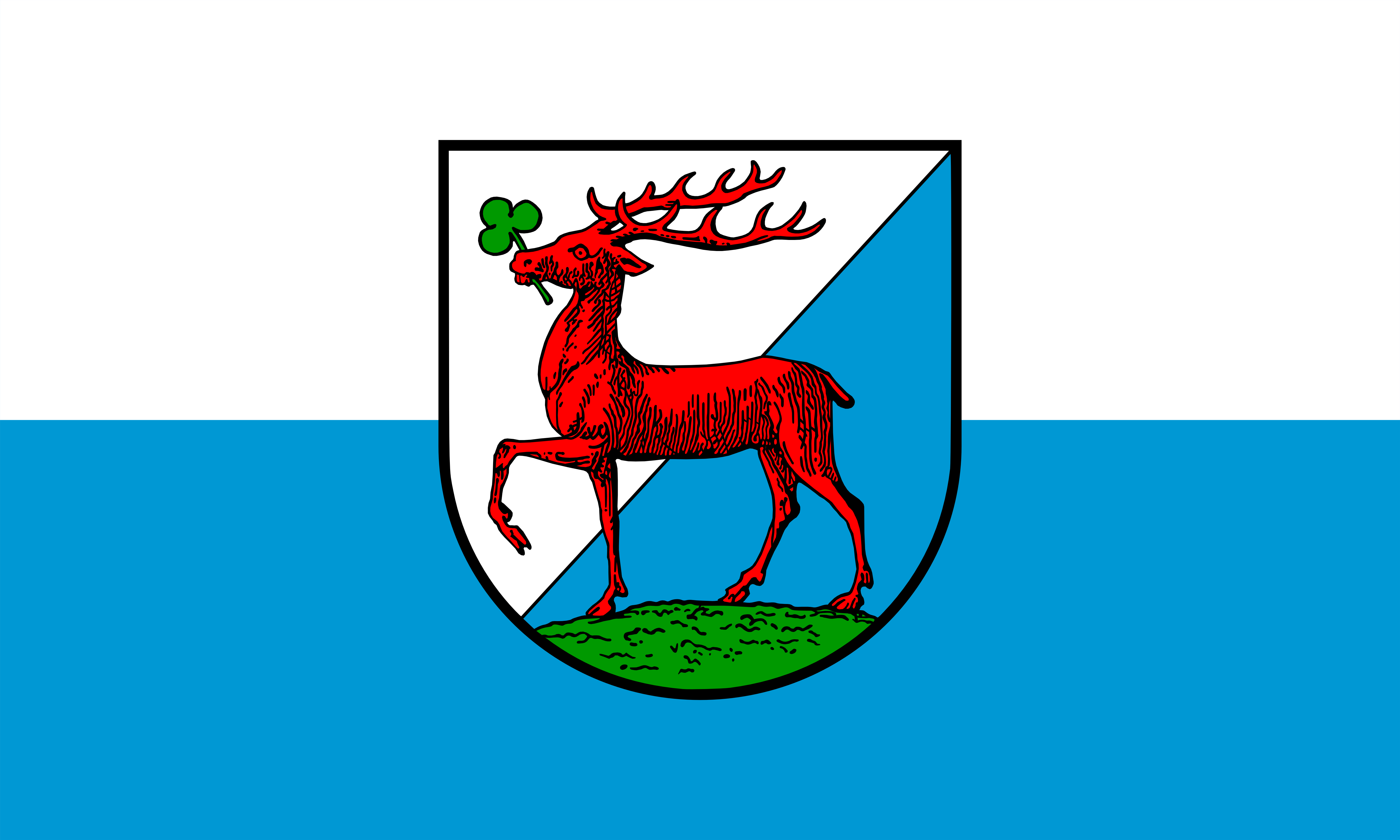 Flag of the city of Hirschberg i. Rsgb. (today Jelenia Góra)